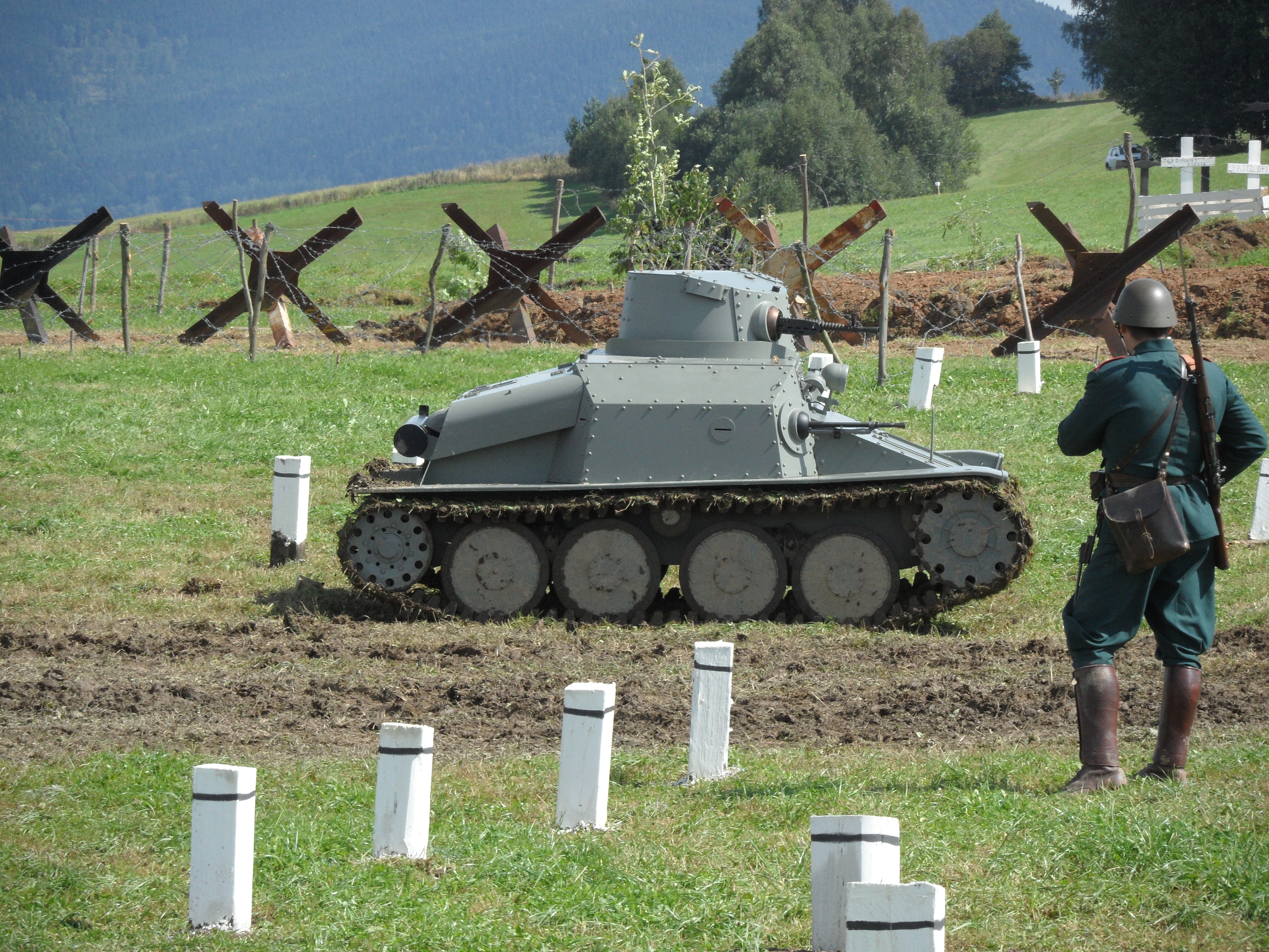 Akce Cihelna 2014 F04. Main Historical Presentation: Mobilisation 1938 (Saturday). Alternative Scenario: Fighting for the Borderline, Králíky, Ústí nad Orlicí District, the Czech Republic.